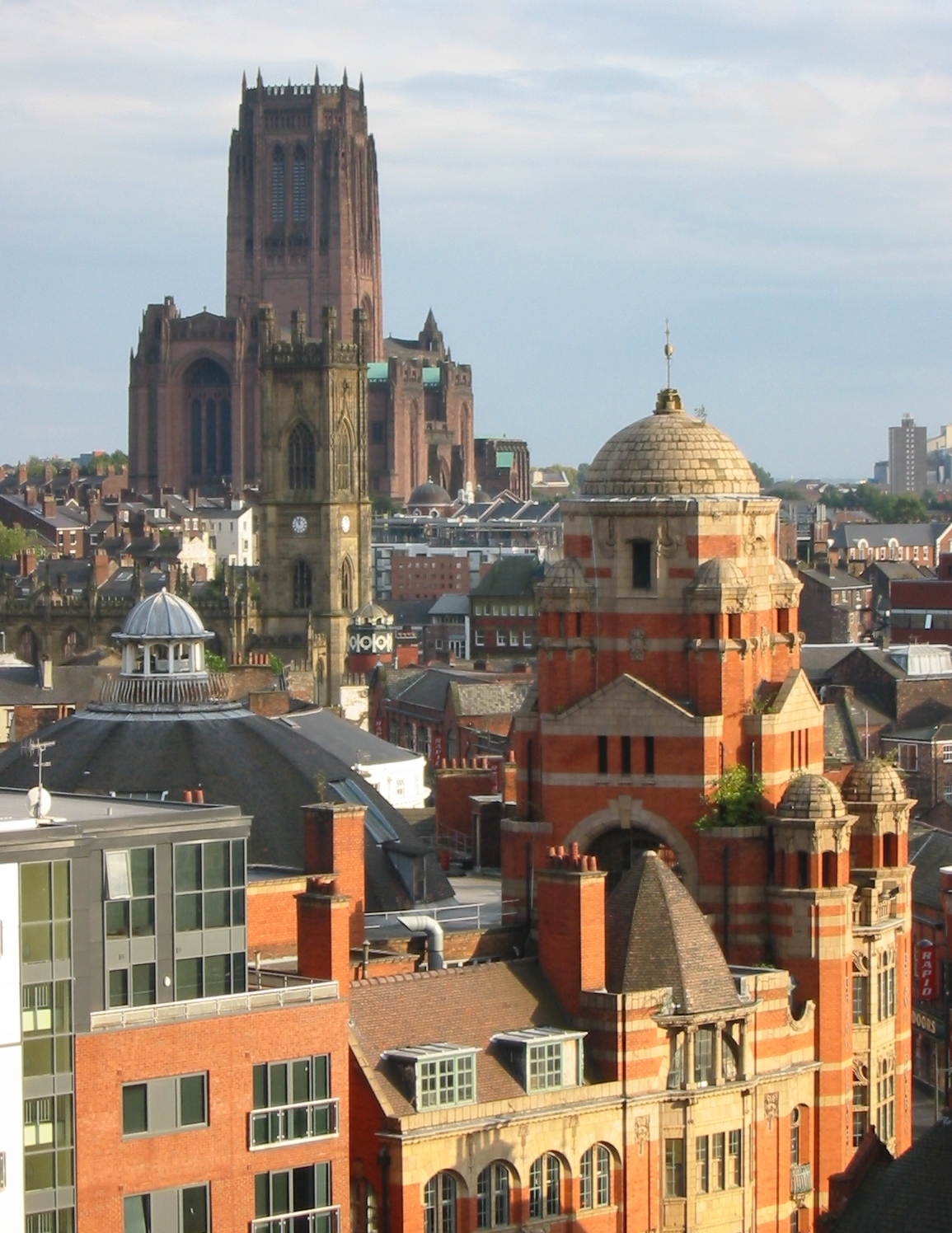 Liverpool